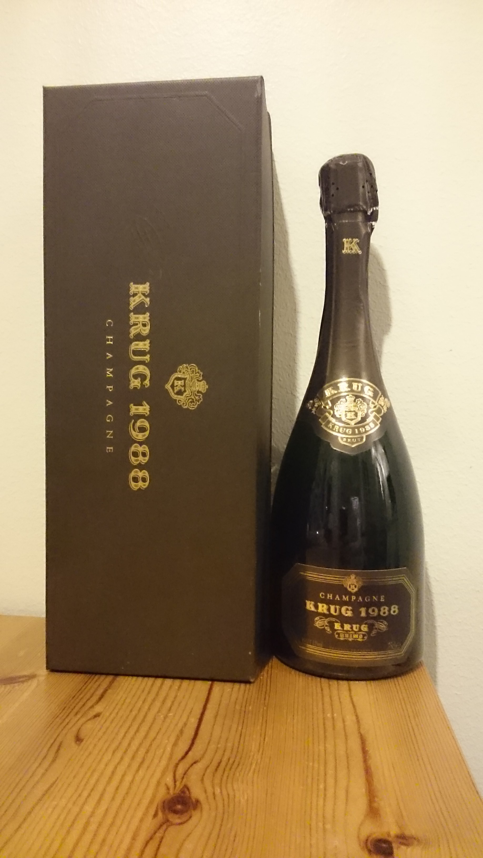 krug 1988